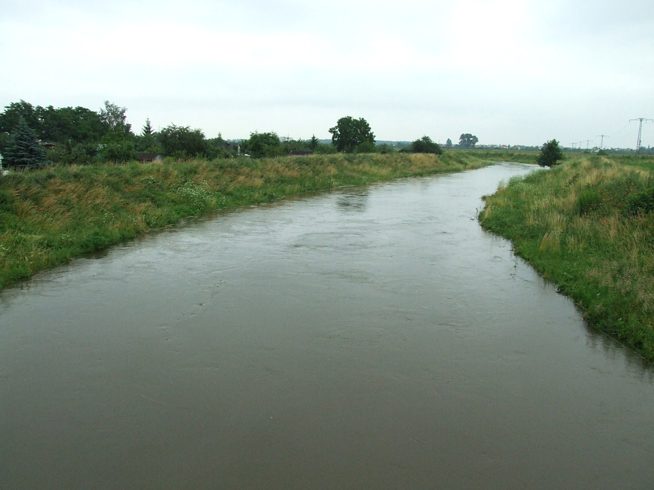 Ślęza River in Wrocław, Poland